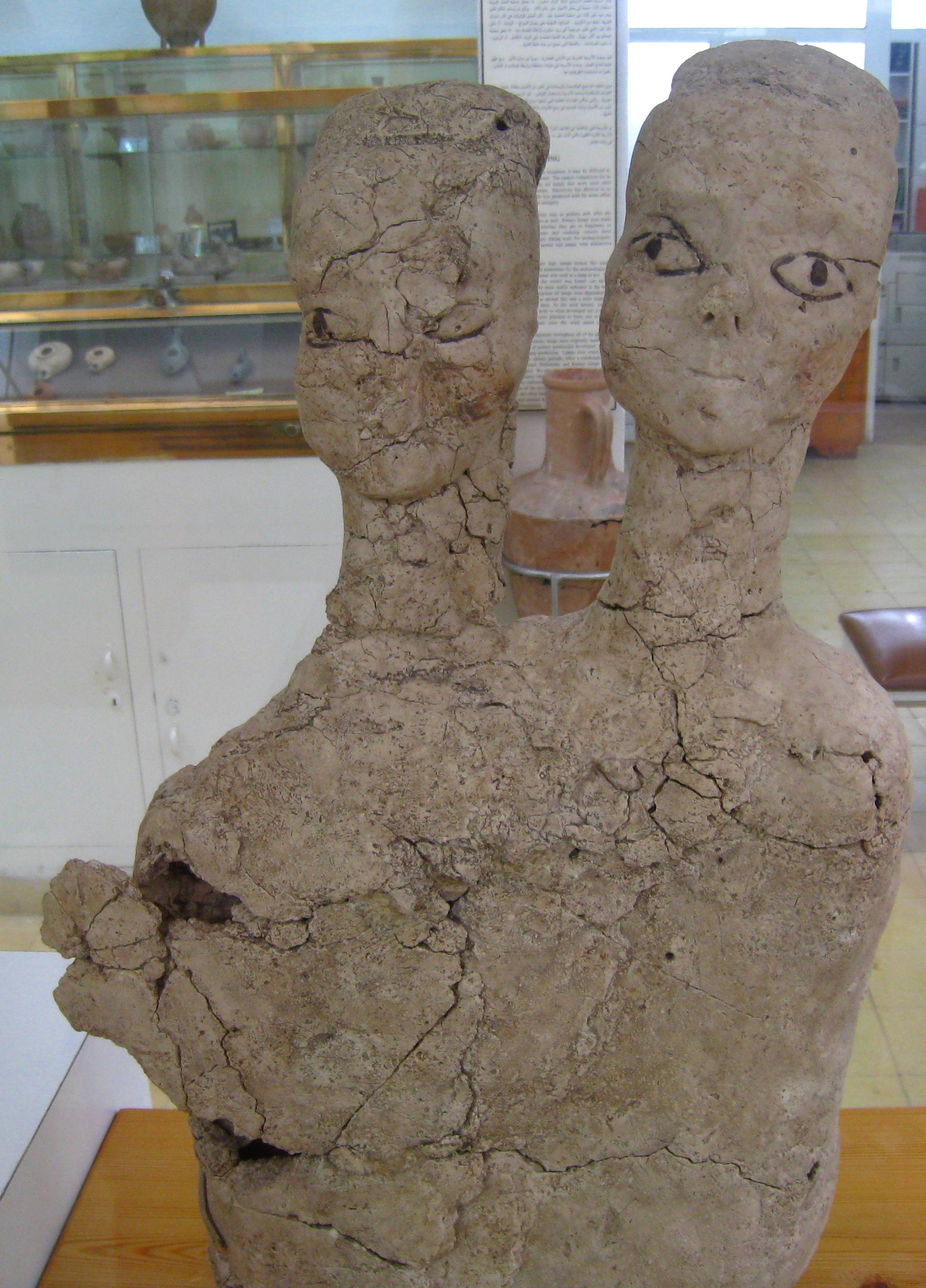 Ain Ghazal figures from around 6 500 BC exhibited in Archeological Museum, Amman, Jordan